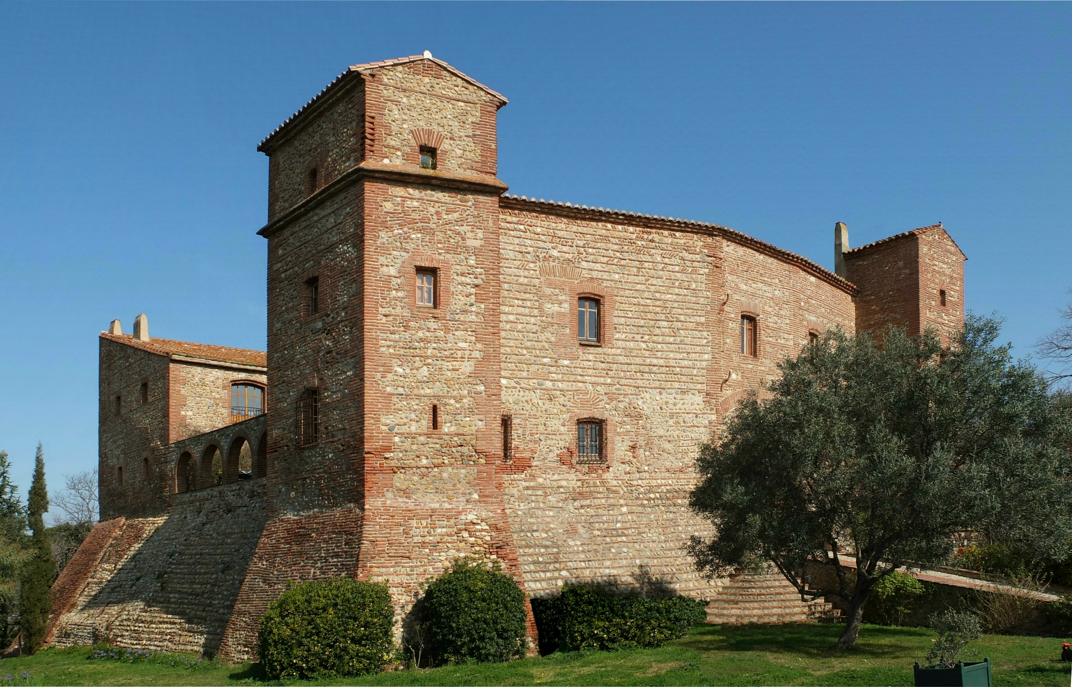 Corneilla-del-Vercol, France, Castle (view south)